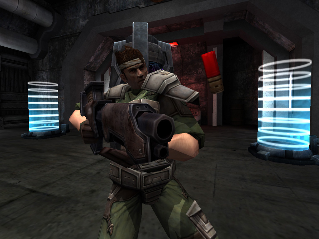 Sreenshot of video game Tremulous